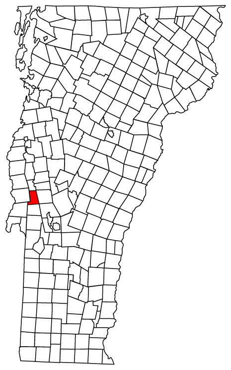 Description: Map of Vermont towns with Sudbury highlighted Source: Map created by Jared C. Benedict on 26 March 2004. Copyright: © Jared C. Benedict.